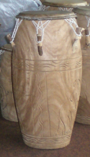 a Kpanlogo (Percussioninstrument from Ghana)